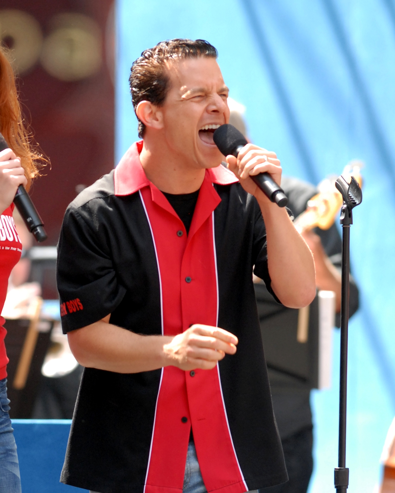 Christian Hoff and the cast of Jersey Boys performing "December 1963 (Oh What A Night)" at Broadway on Broadway, 10 September 2006.